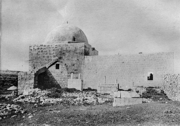 Rachel\'s Tomb, Bethlehem